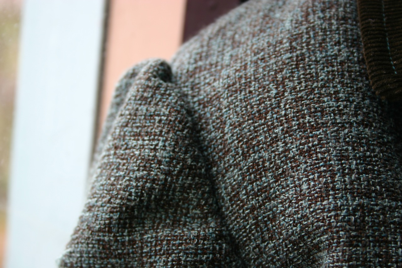 Shoulder of a set-in sleeve, joined to the body of the garment using a blind stitch